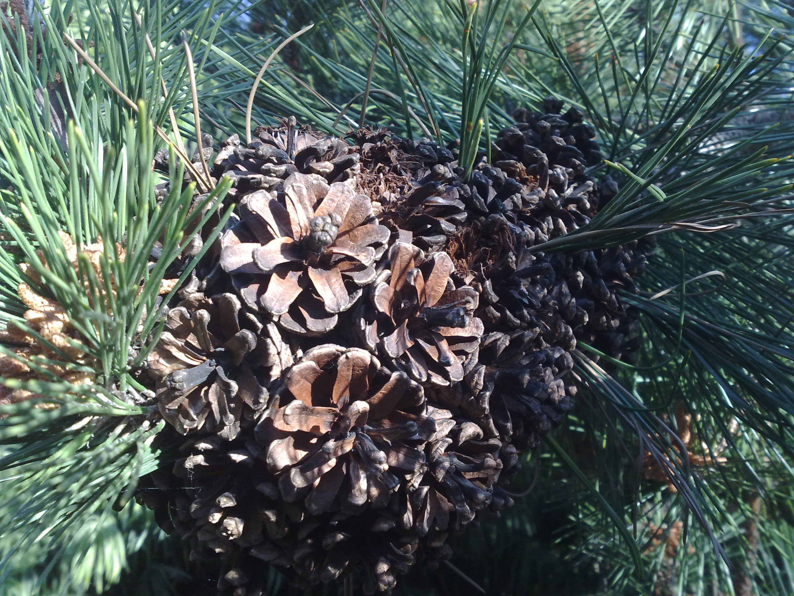 Cultivar of Pinus thunbergii with a large cone cluster. Cultivated, Palo Alto, California.